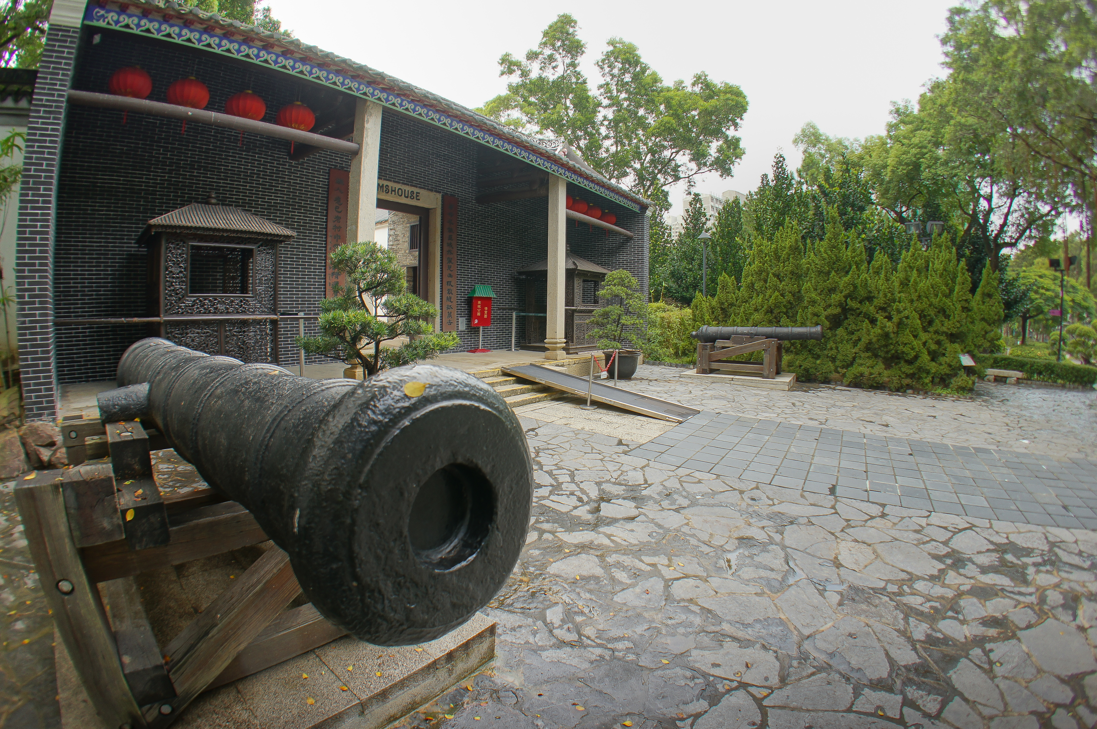 Former Yamen Building of Kowloon Walled City, Kowloon, Hong Kong.